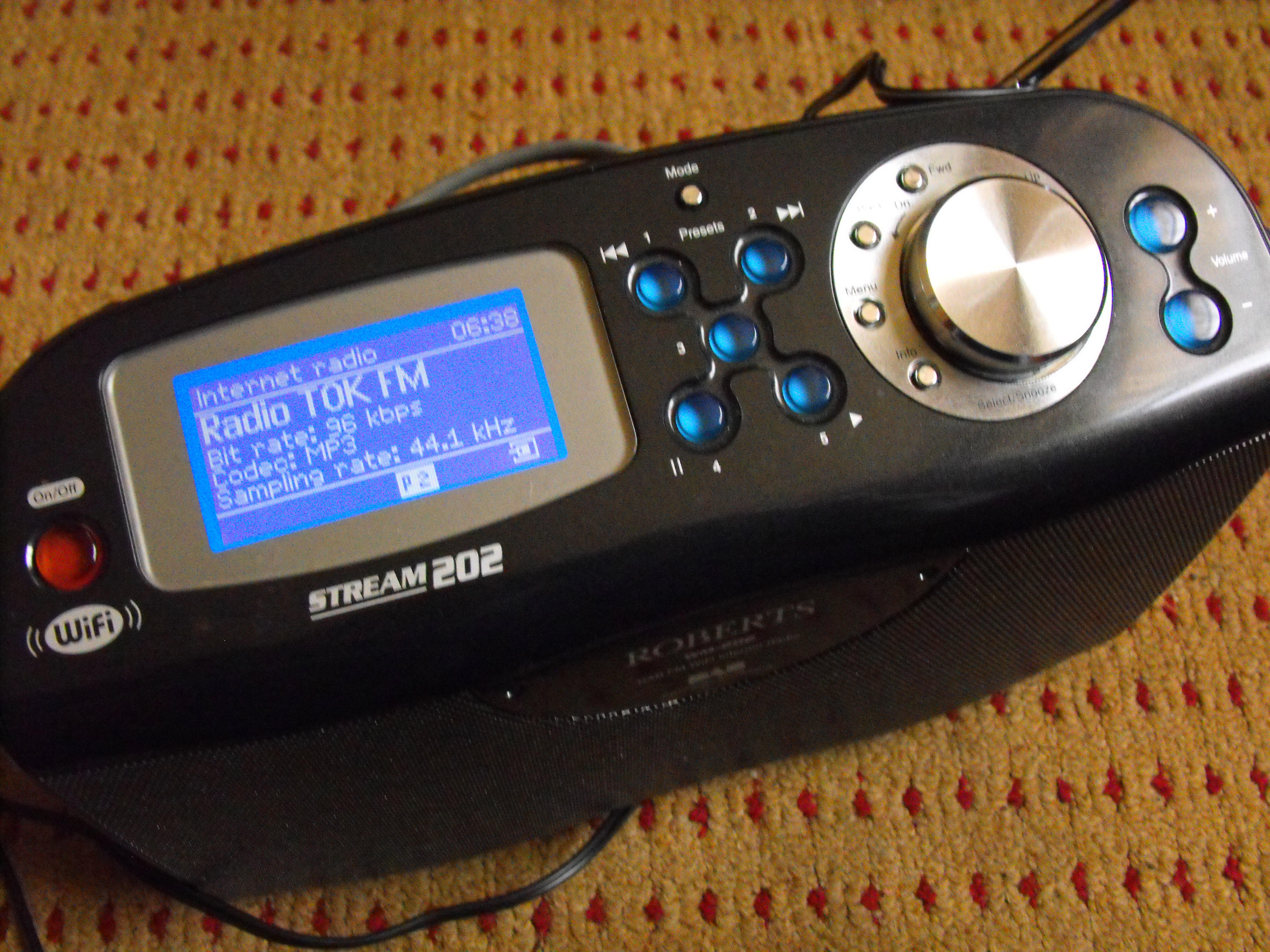 Roberts radio receiver